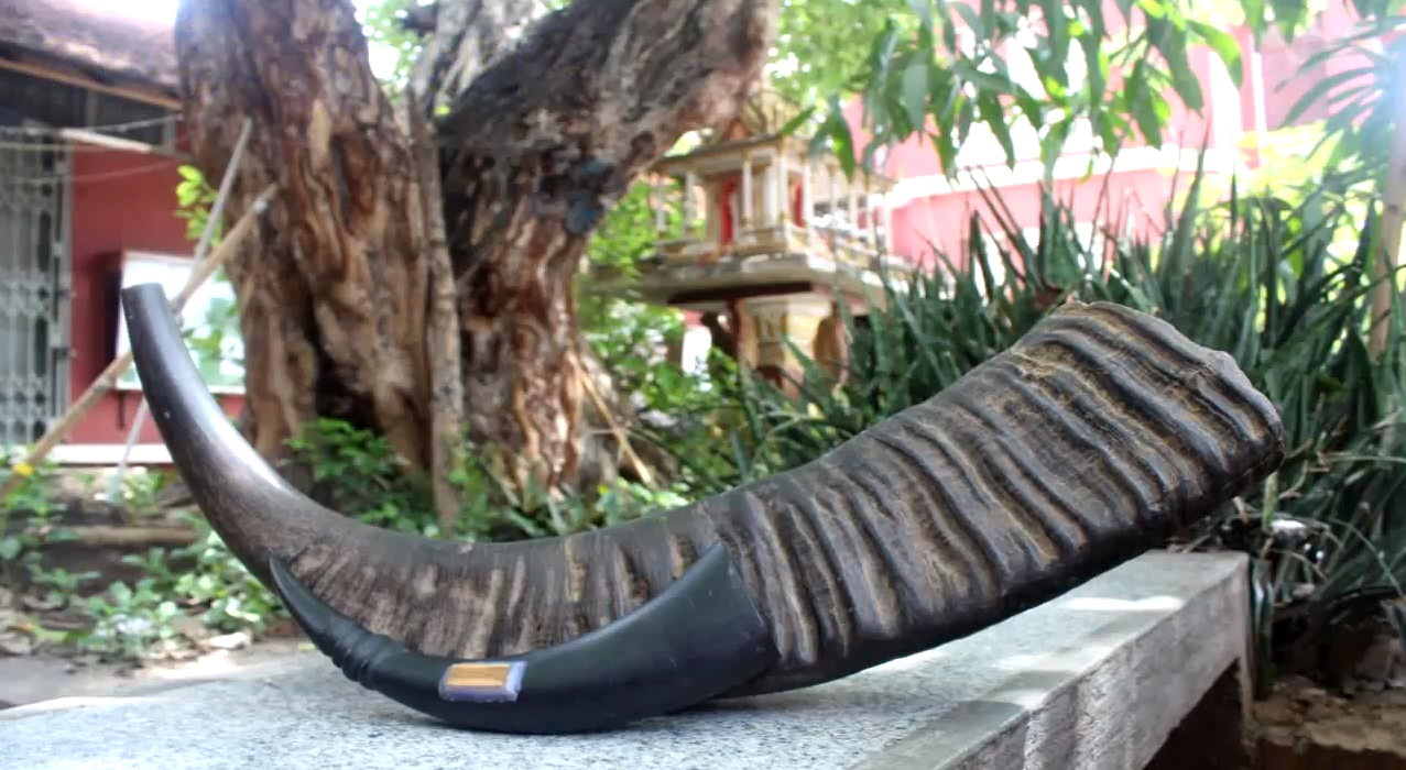 A Cambodian musical instrument called a Sneng ស្នែង, made from a cow's horn, sits in front of a water buffalo horn. Bottom right of image was modified to remove commercial logo from YouTube.